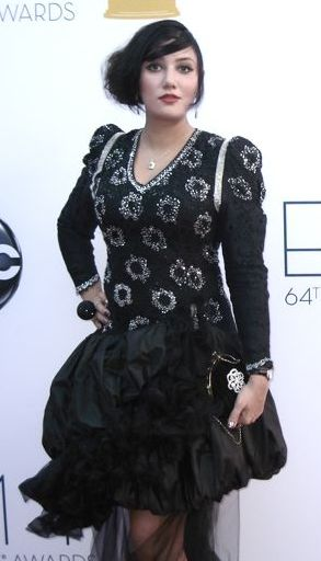 Costume Designer Arefeh Mansouri on the Red Carpet at the 64th Primetime Emmy Awards at the Nokia Theatre in Los Angeles on September 23, 2012